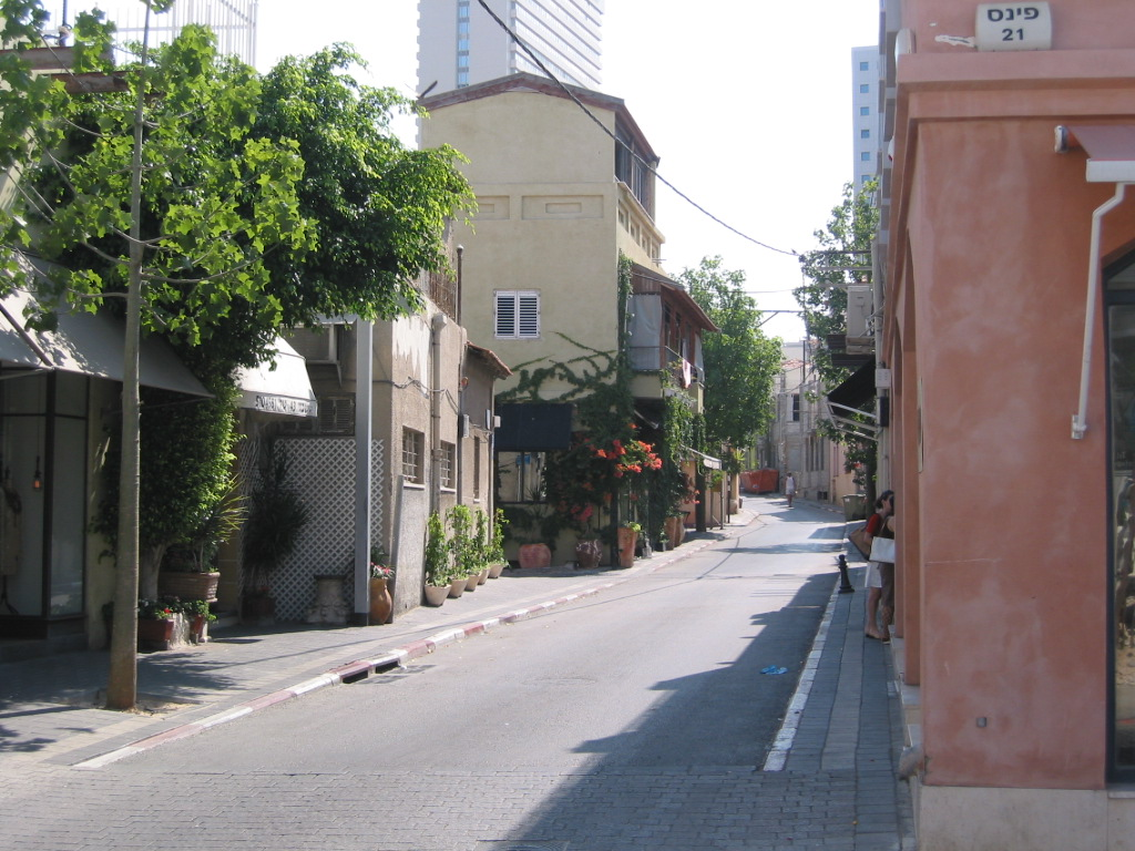 Shabazi Street, Tel Aviv